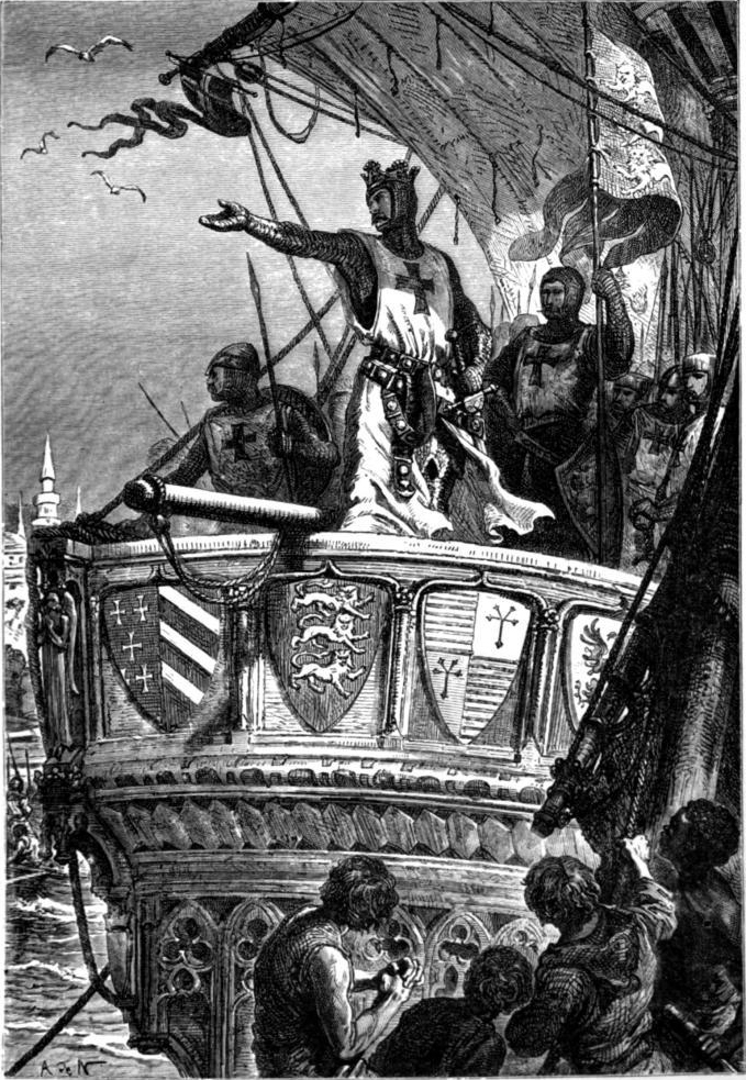 Richard the Lionheart's Farewell to the Holy Land